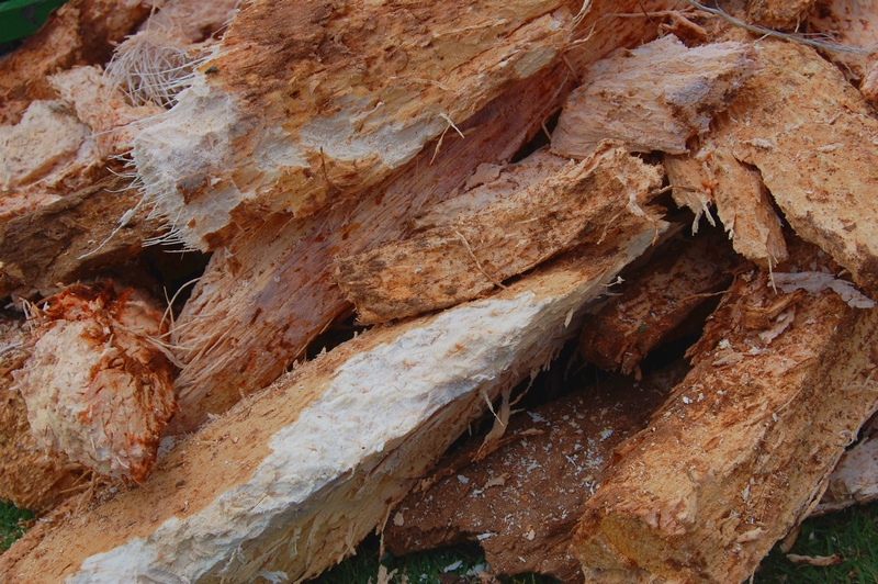 Close up of the pith of sago palm (Metroxylon sagu); Simeulue, IndonesiaBahasa Indonesia: Kepingan empulur sagu dari dekat; Teupah Selatan, Simeulue